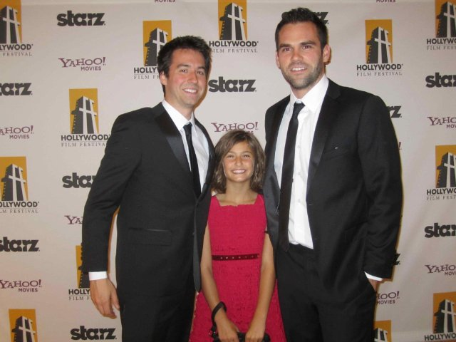 Mark Dennis attends The 14th Annual Hollywood Awards Gala with Ben Foster and Olivia Draguicevich.